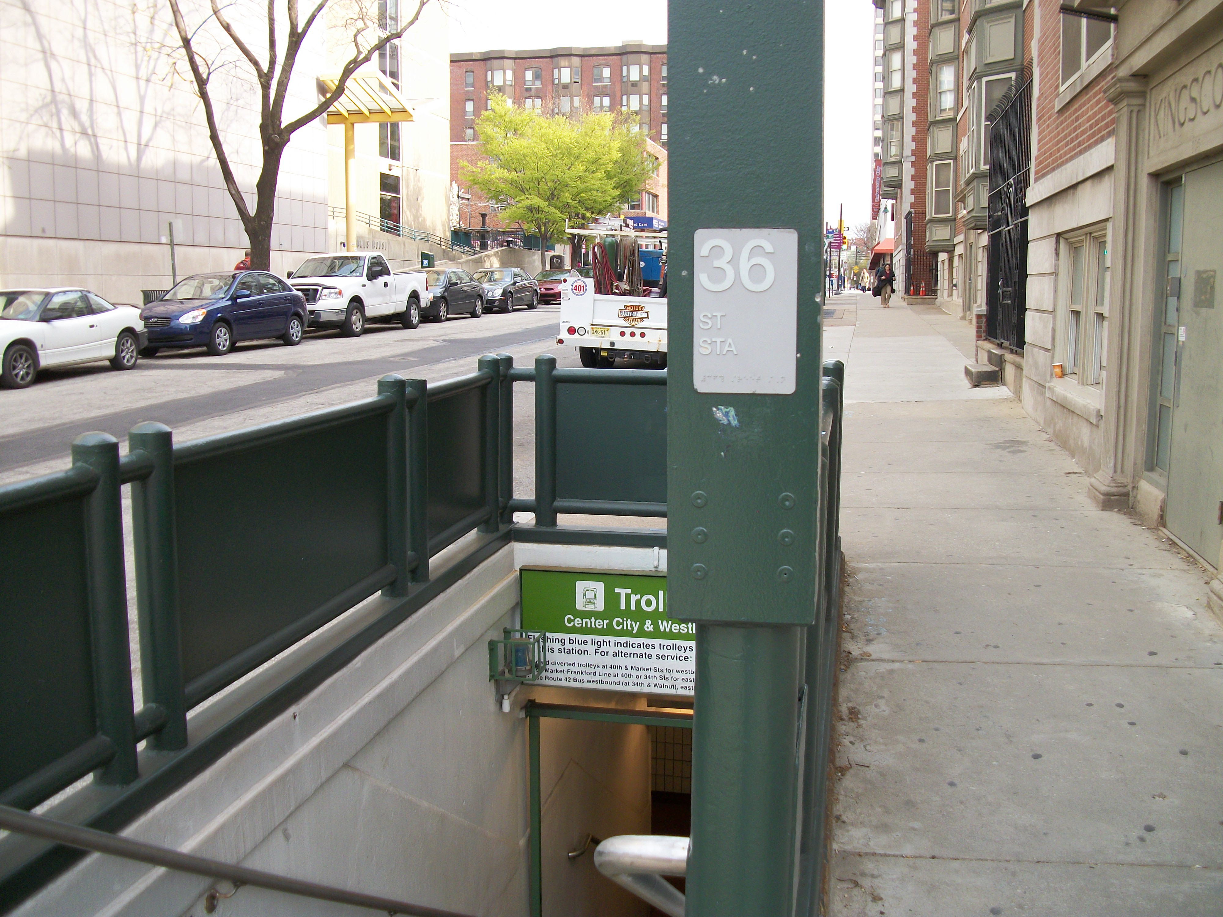 Close-up view of the entrance to the 36th Street-Samson Commons Subway-Surface Trolley Lines on the northeast corner of 36th Street and Samson Avenue in Philadelphia, Pennsylvania. This version contains the 36th Street station braille sign, although you can't see the braille too well from here.